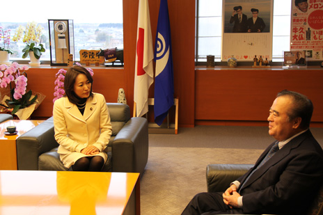 Masako Miyoshi, Minister of State for Measures for Declining Birthrate, met Masaru Hashimoto, Governor of Ibaraki Prefecture, at Ibaraki Prefectural Government Building in Mito City, Ibaraki Prefecture on January 15, 2014.